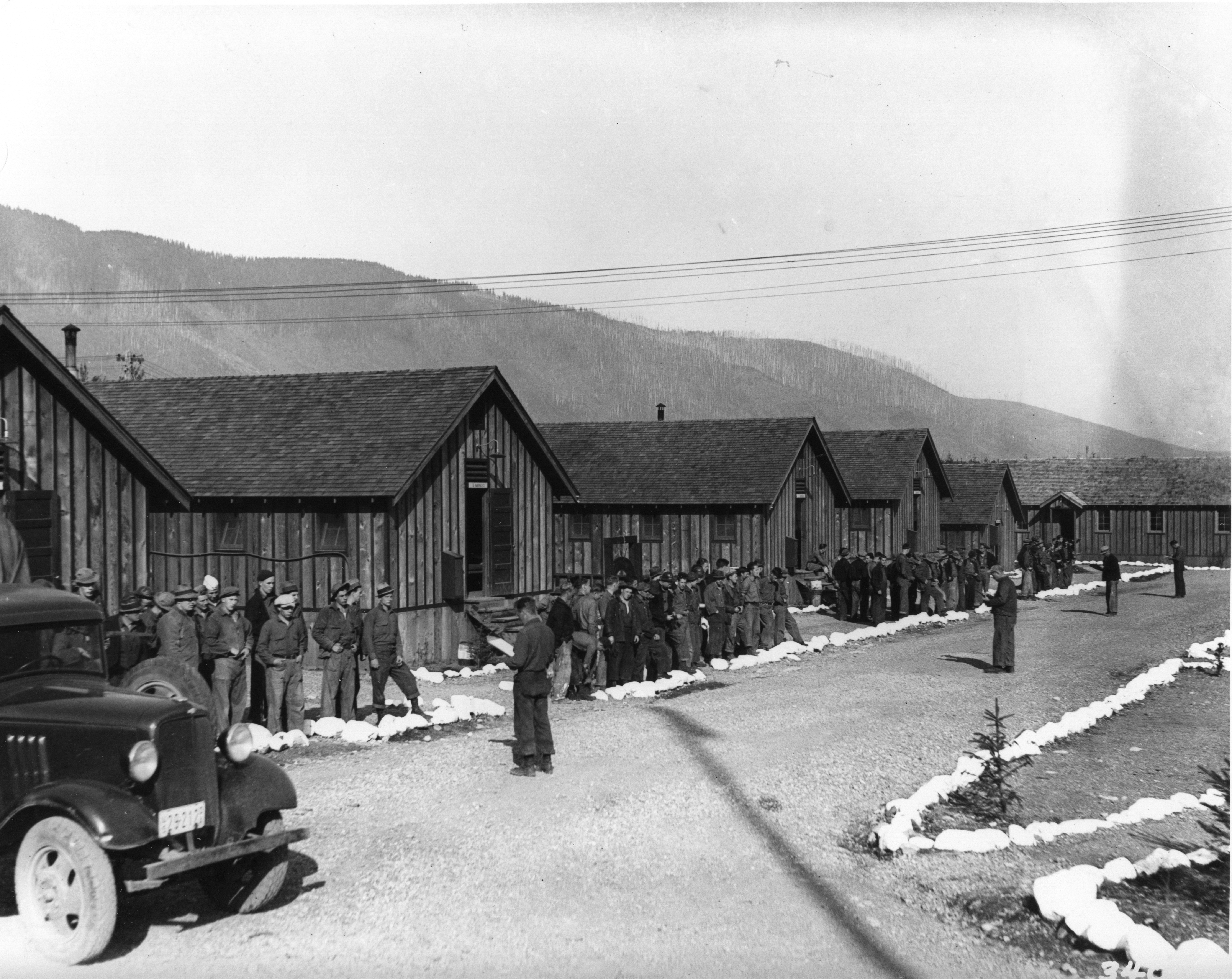 Description/Notes: USFS photo #340129 Original Collection: Gerald W. Williams Collection Item Number: WilliamsG:CCC Roll call You can find this image by searching for the item number by clicking here. Want more? You can find more digital resources online. We're happy for you to share this digital image within the spirit of The Commons; however, certain restrictions on high quality reproductions of the original physical version may apply. To read more about what “no known restrictions” means, please visit the Special Collections & Archives website, or contact staff at the OSU Special Collections & Archives Research Center for details.